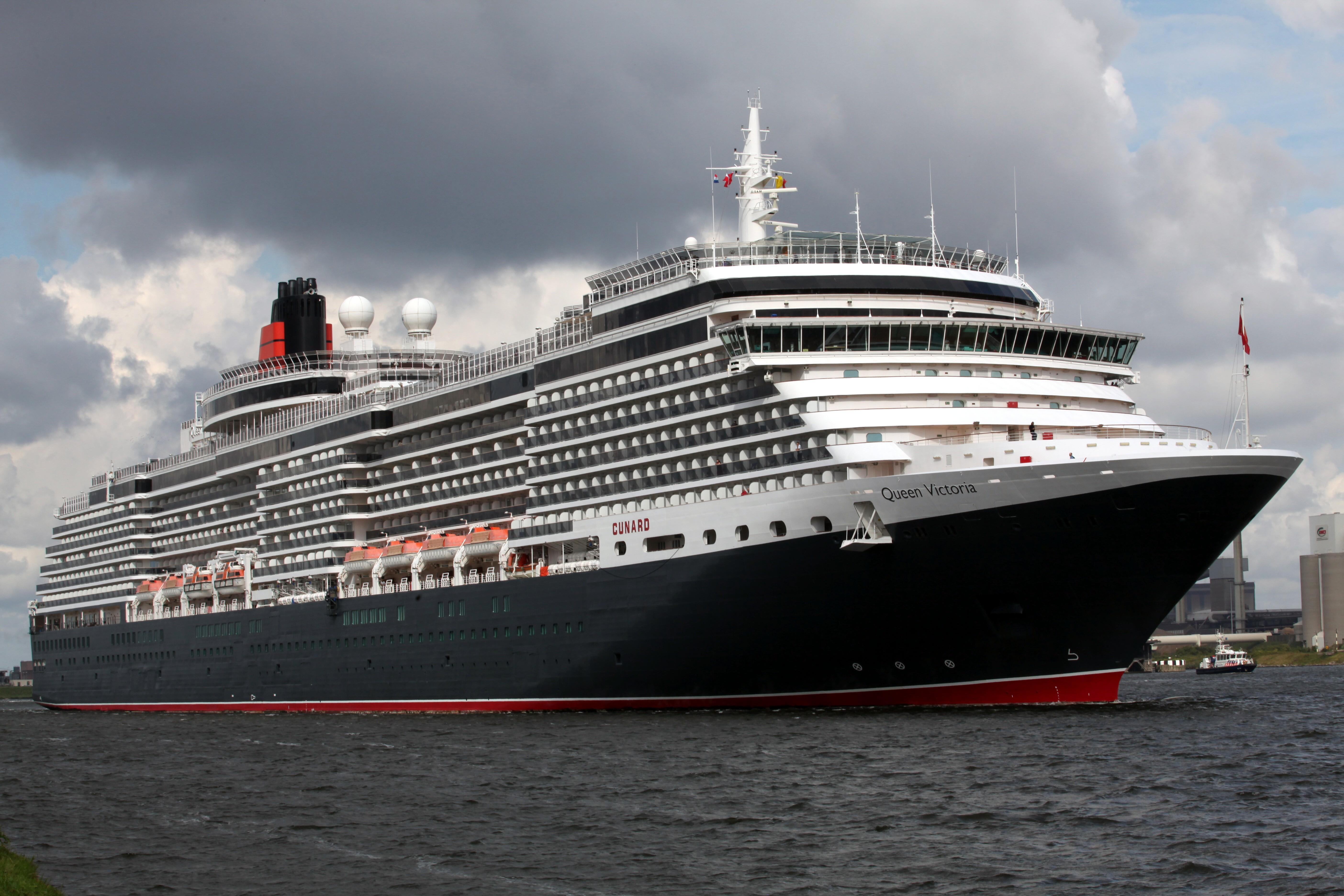 Cunard MS Queen Victoria Southampton